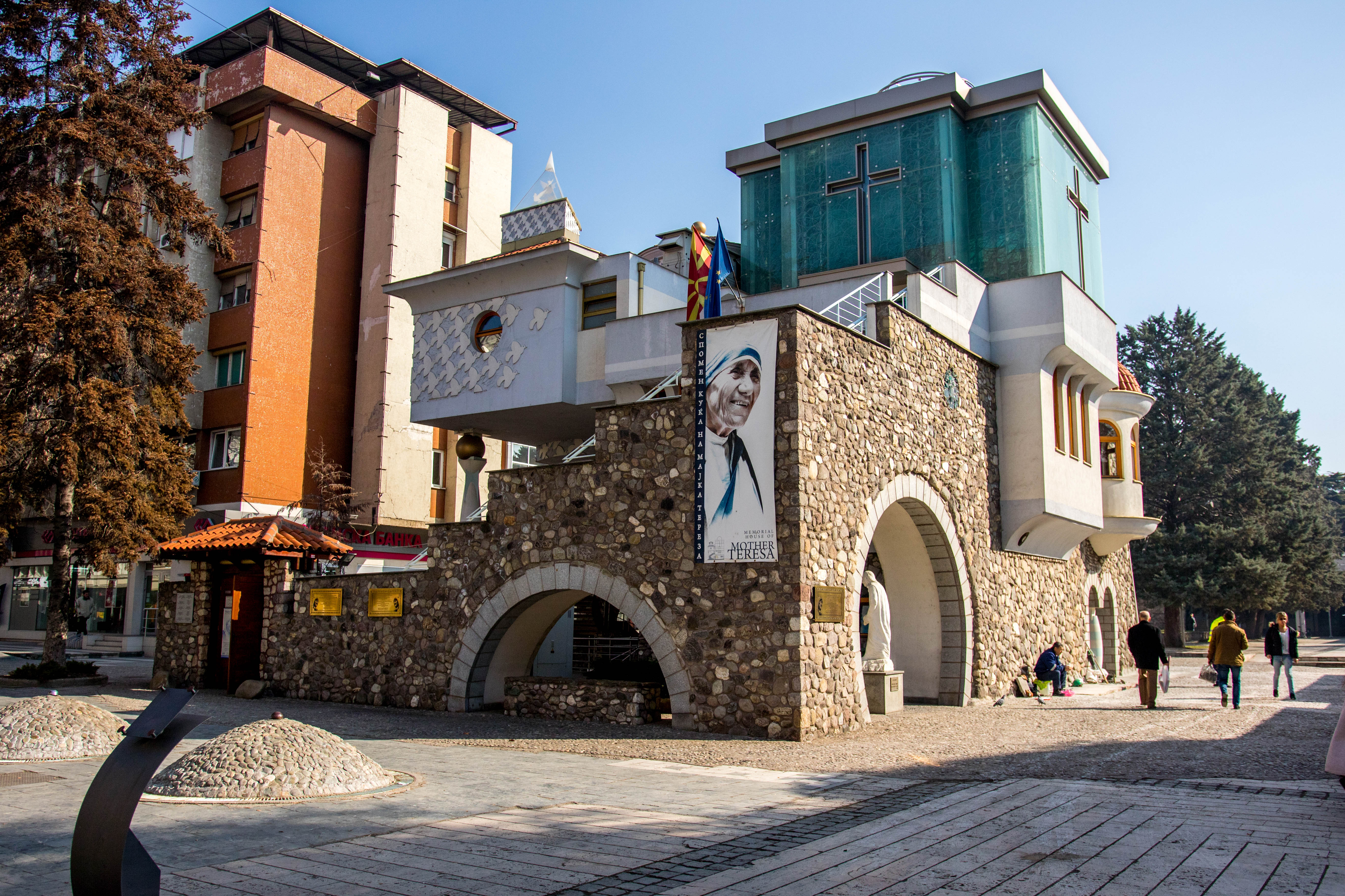 A photo from the Memorial House Of Mother Teresa